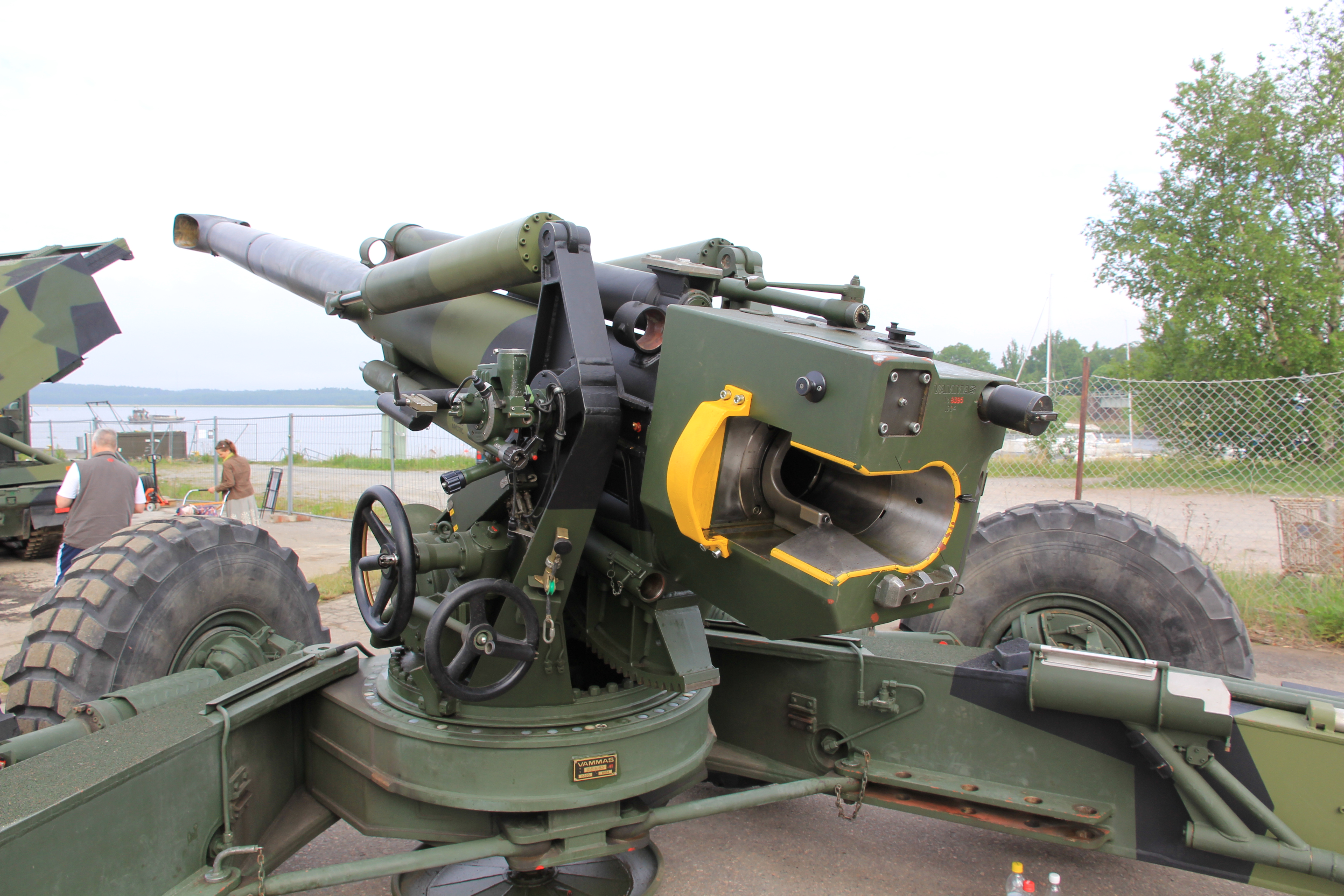 Towed 155 K 83-97 heavy cannon on display during Finnish Defence Forces 2013 Flag day in Ekenäs harbour.